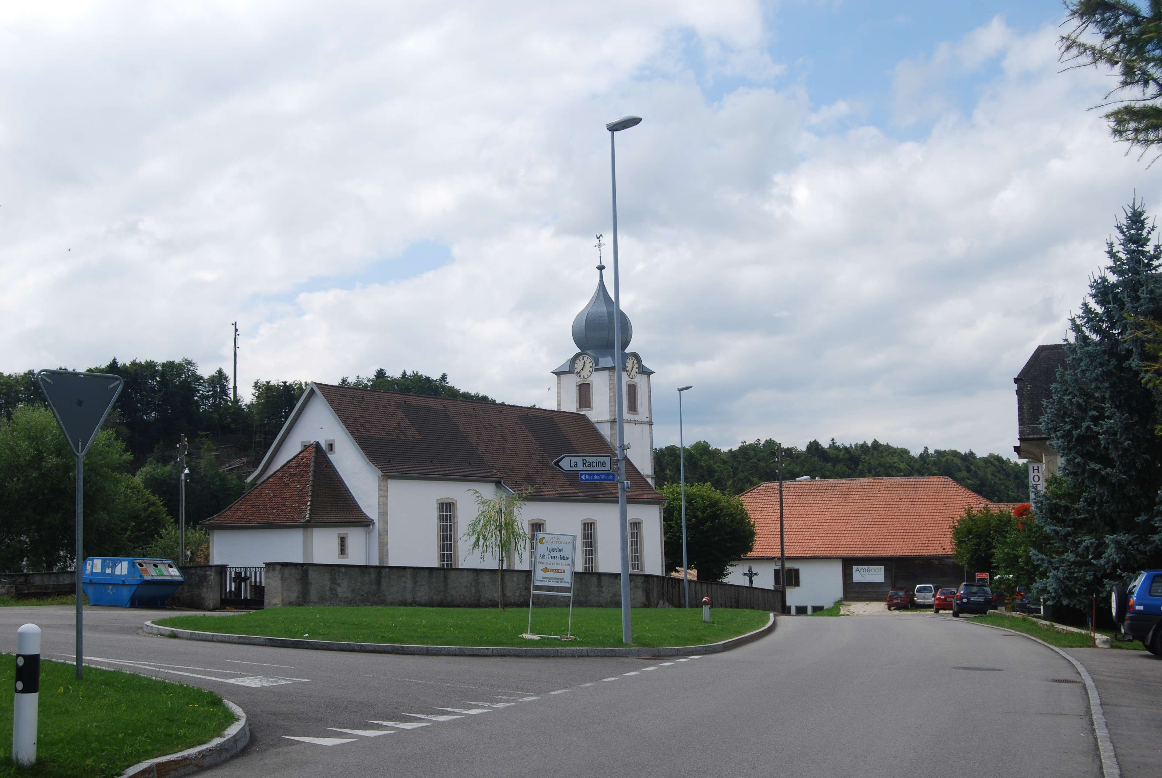 Church of Saulcy, canton of Jura, Switzerland